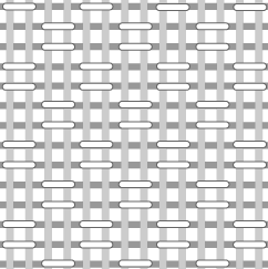 Detail of a diagram of the structure of a balanced "basketweave" textile.